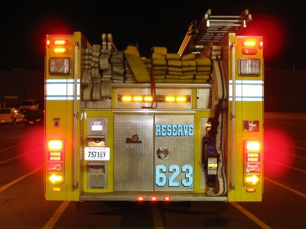 A photo at night of Ashburn, Virginia Reserve Engine 623.